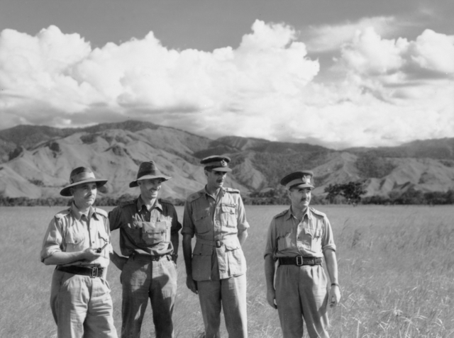 Ramu Valley, New Guinea. Senior AIF officers inspecting a newly completed airstrip. Left to right: Lieutenant General Sir Edmund Herring KBE, DSO, MC, ED, General Officer Commanding, 1st Australian Corps; VX35 Lieutenant Colonel J. A. Bishop DSO, MBE, Commanding Officer, 2/27th Australian Infantry Battalion; VX9 Major General G. A. Vasey CB, OBE, DSO, General Officer Commanding, 7th Australian Division; NX8 Lieutenant General Sir Leslie Morshead KCB, KBE, CMG, DSO, ED, General Officer Commanding, 2nd Australian Corps.